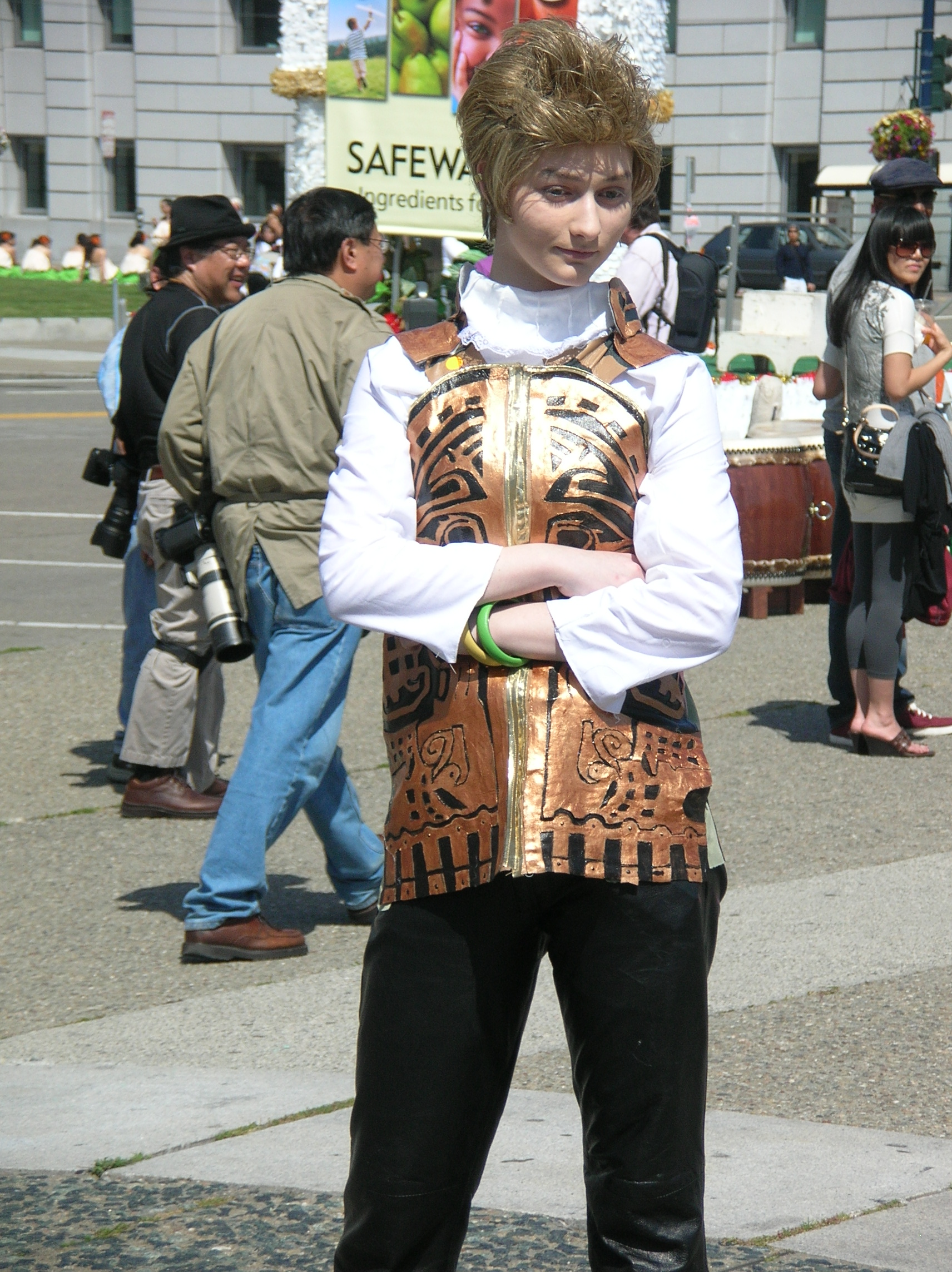 A cosplayer portraying Balthier from Final Fantasy XII competing in the costume contest at the Northern California Cherry Blossom Festival in San Francisco, California.